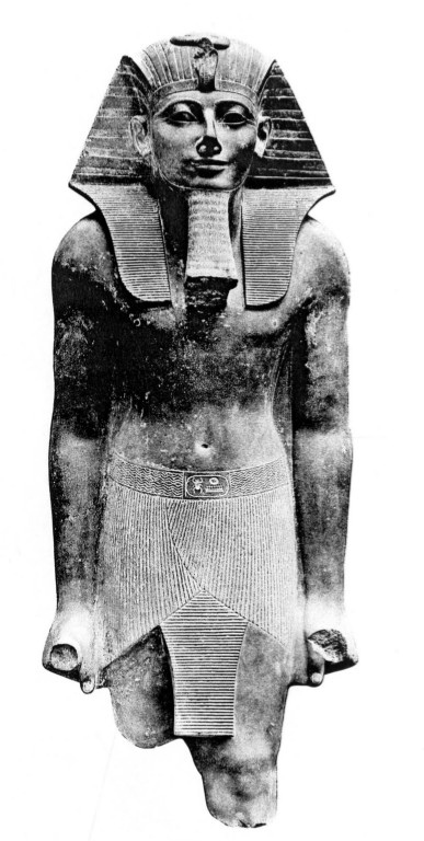 Statue of Thutmose III., New Kingdom from the Karnak Cachette, found by Legrain 1904 Luxor Museum J2 (before: Egyptian Museum Cairo CG 42054 / JE 36927)